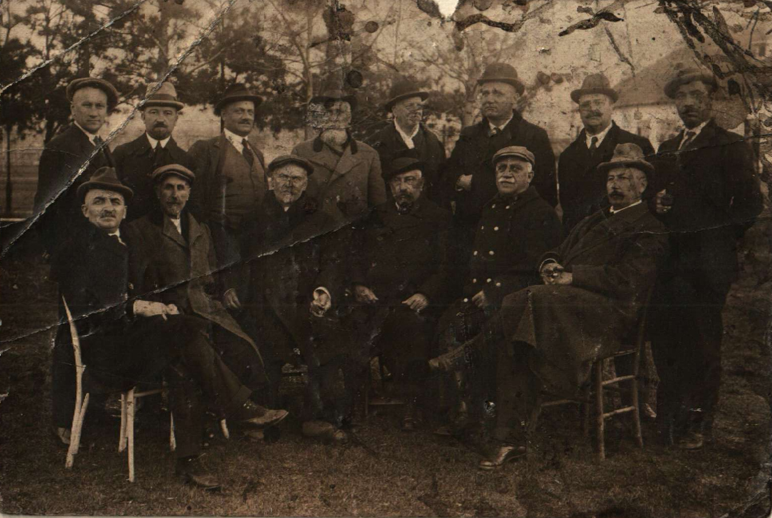 Liberals in Sevlievo, Bulgaria